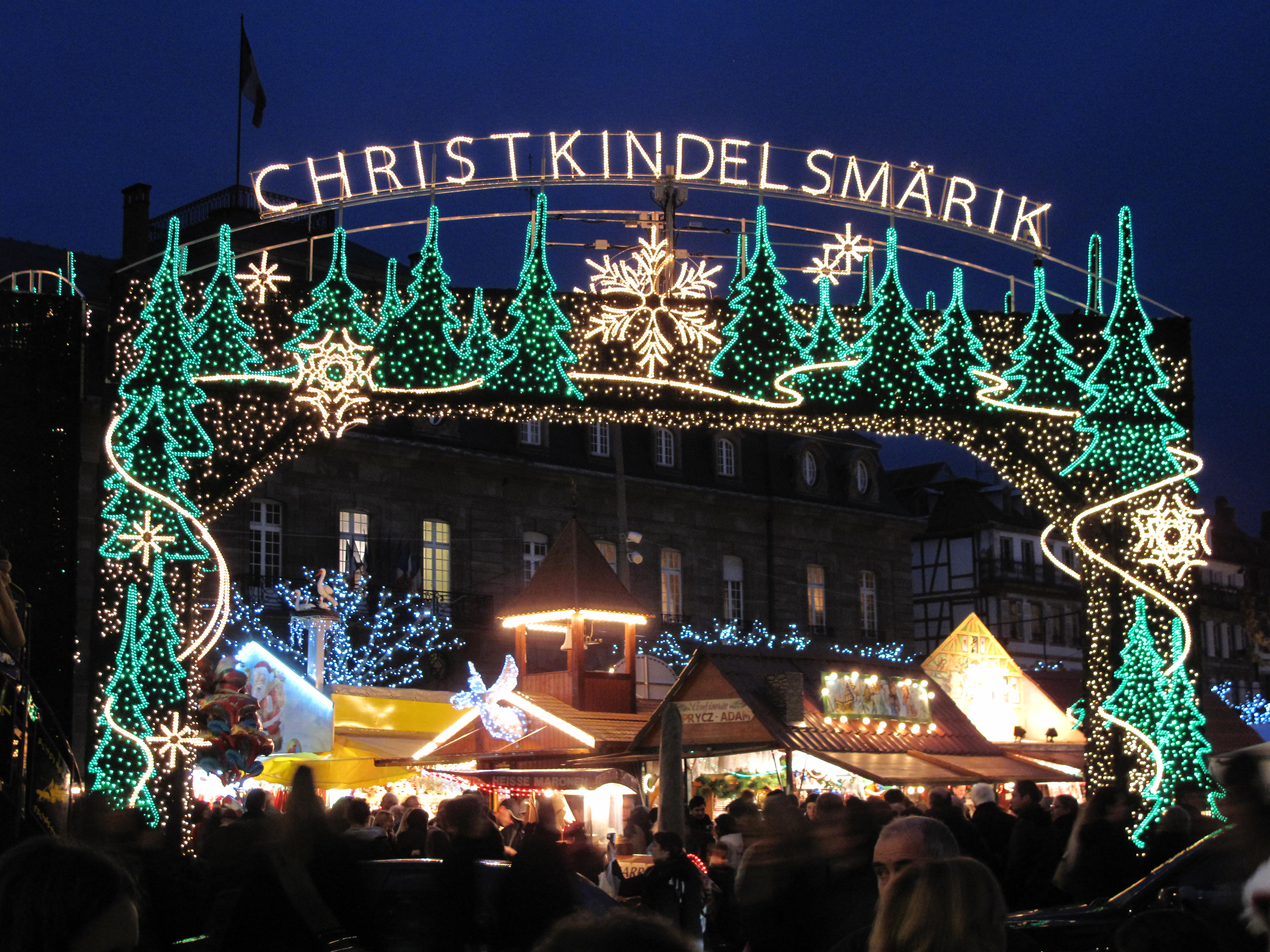 Lighted portal of the Christmas market of Strasbourg (place de Broglie) (France). In local language, Christkindelmarik = market of Jesus Child.